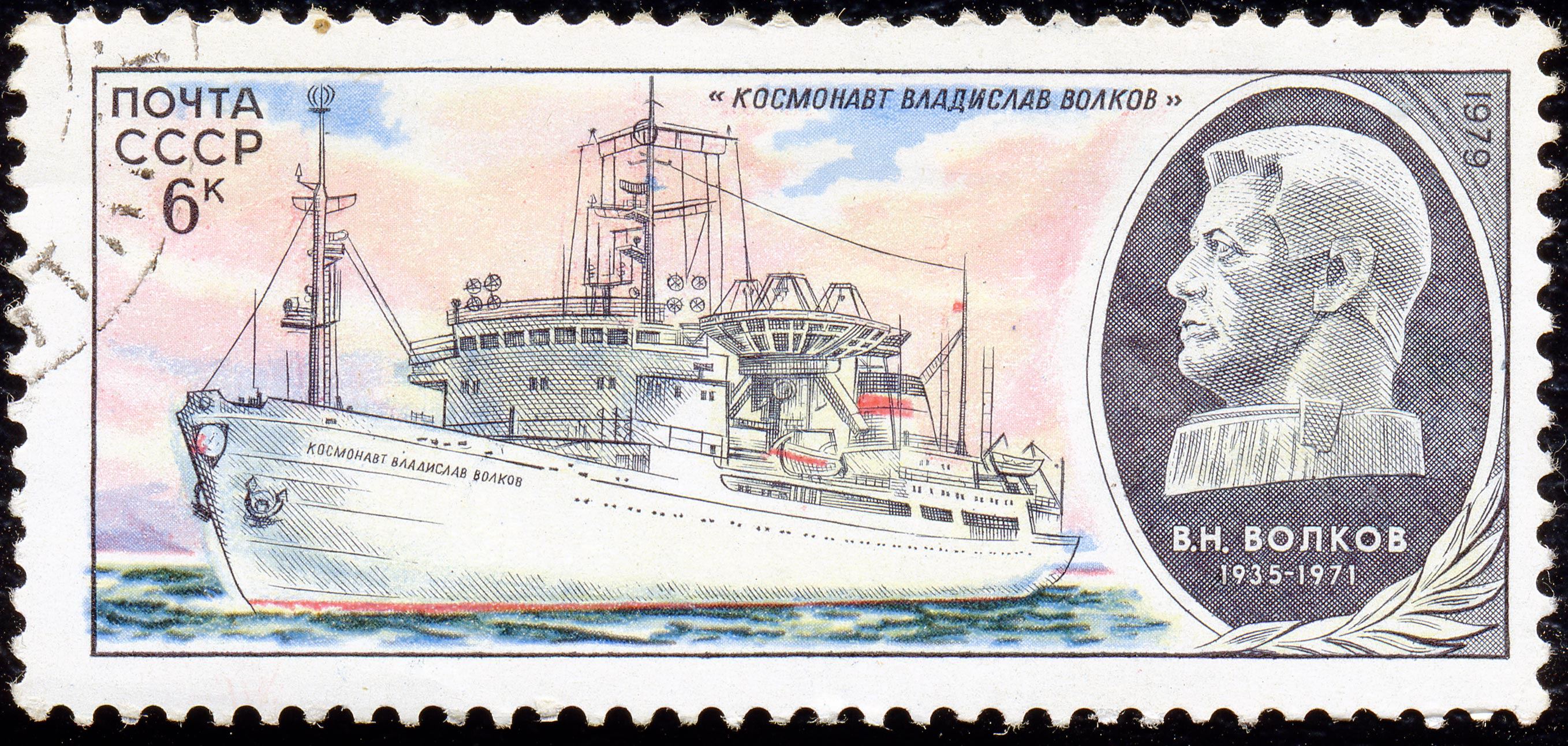 USSR postage stamp. 1979. Research vessel "Cosmonaut Vladislav Volkov" and portrait of Vladislav Volkov